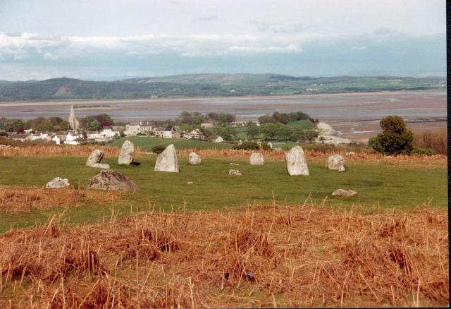 Birkrigg Common. In the background is Bardsea church